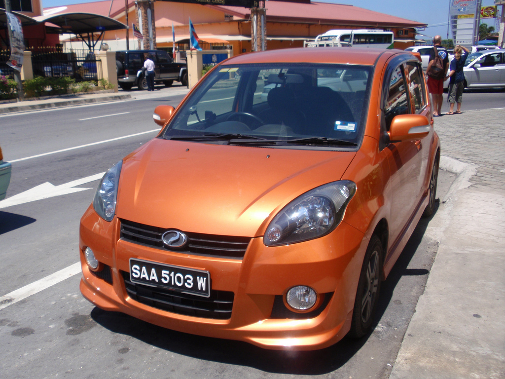 orange Perodua MyVi